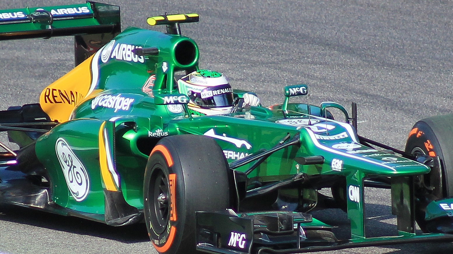 Heikki Kovalainen first friday free practice Monza F1 GP 2013